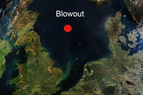 Gas-leakage Northsea since 1990